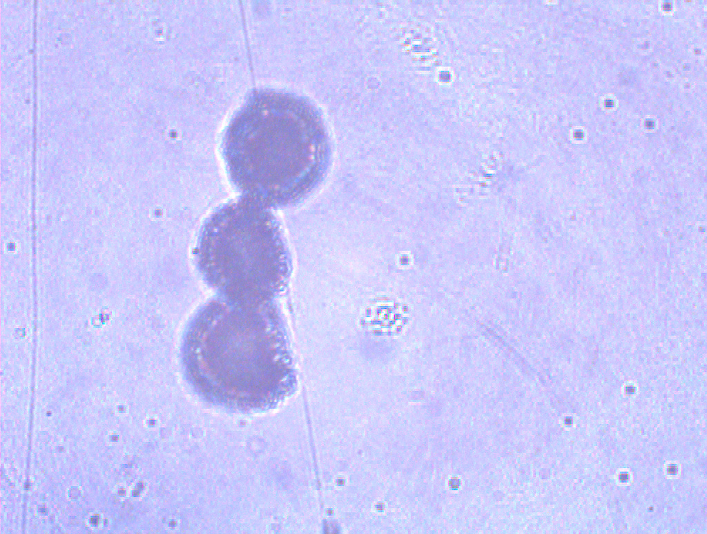 Lycopodium club moss spores stuck to an electrospun polyvinyl alcohol fibre